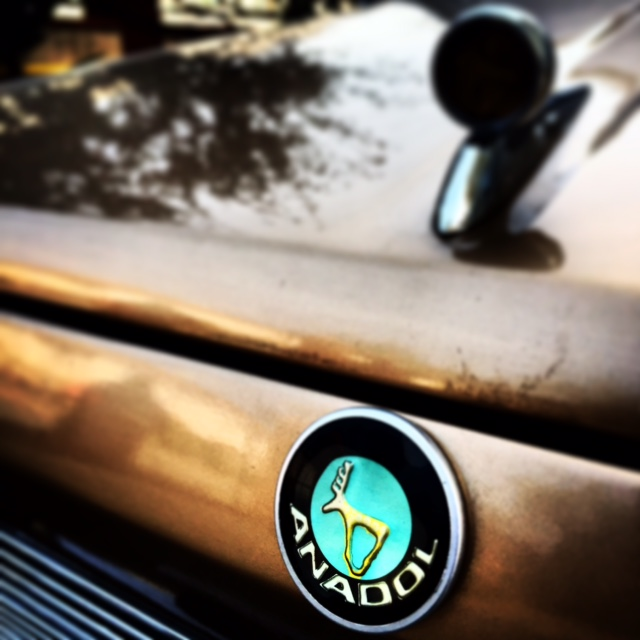 Anadol A1 Arması